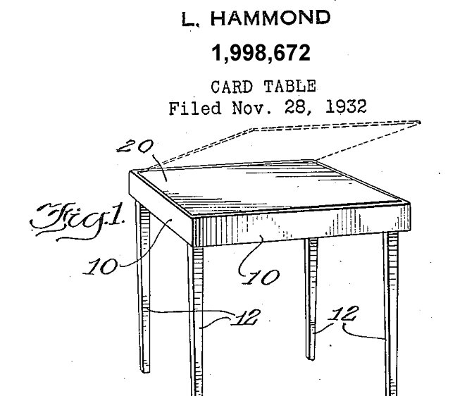 Card table invention by Laurens Hammond - US1998672 A